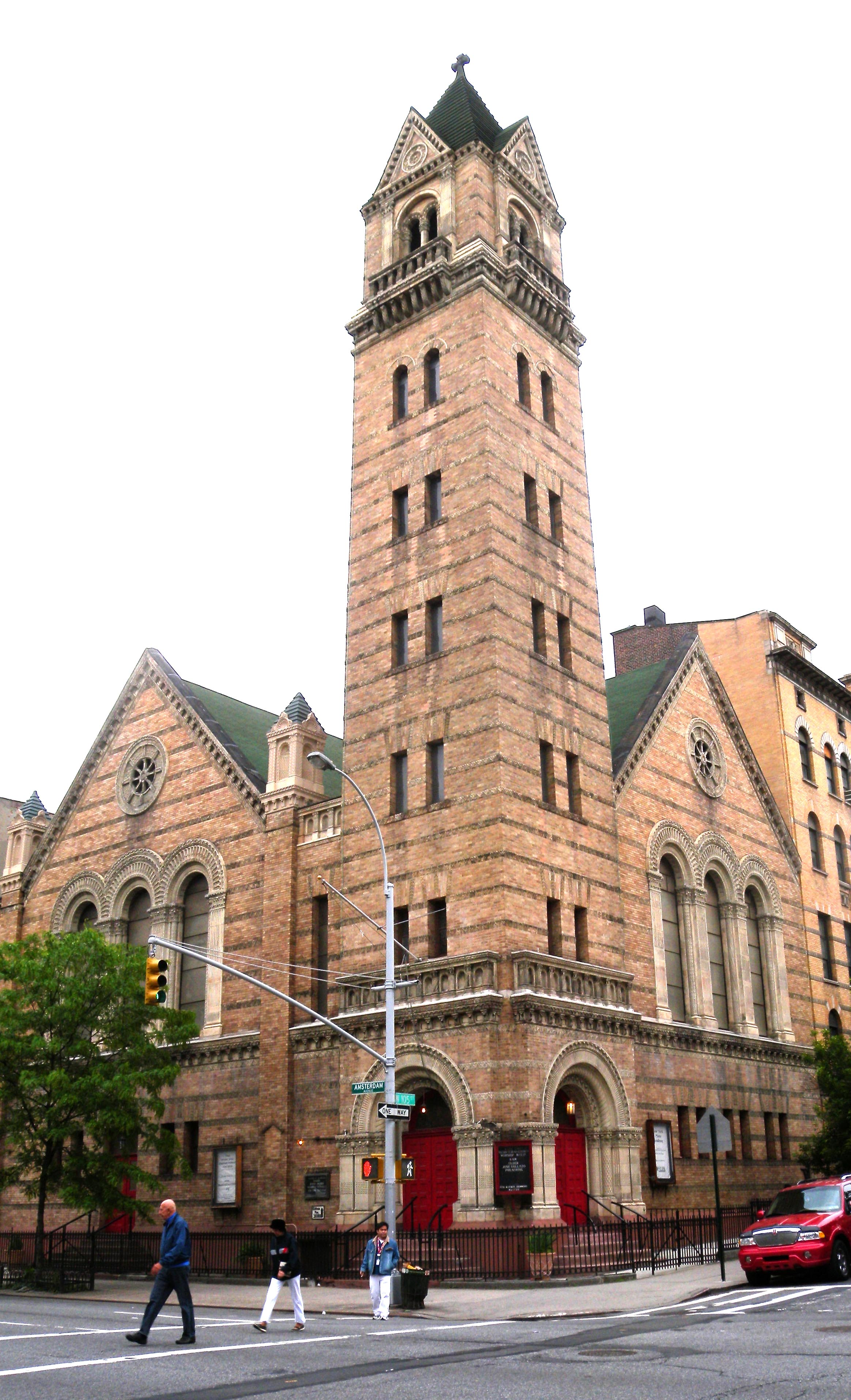 Looking east across Amsterdam Avenue and 105th Street at West End Presbyterian Church on a cloudy afternoon.